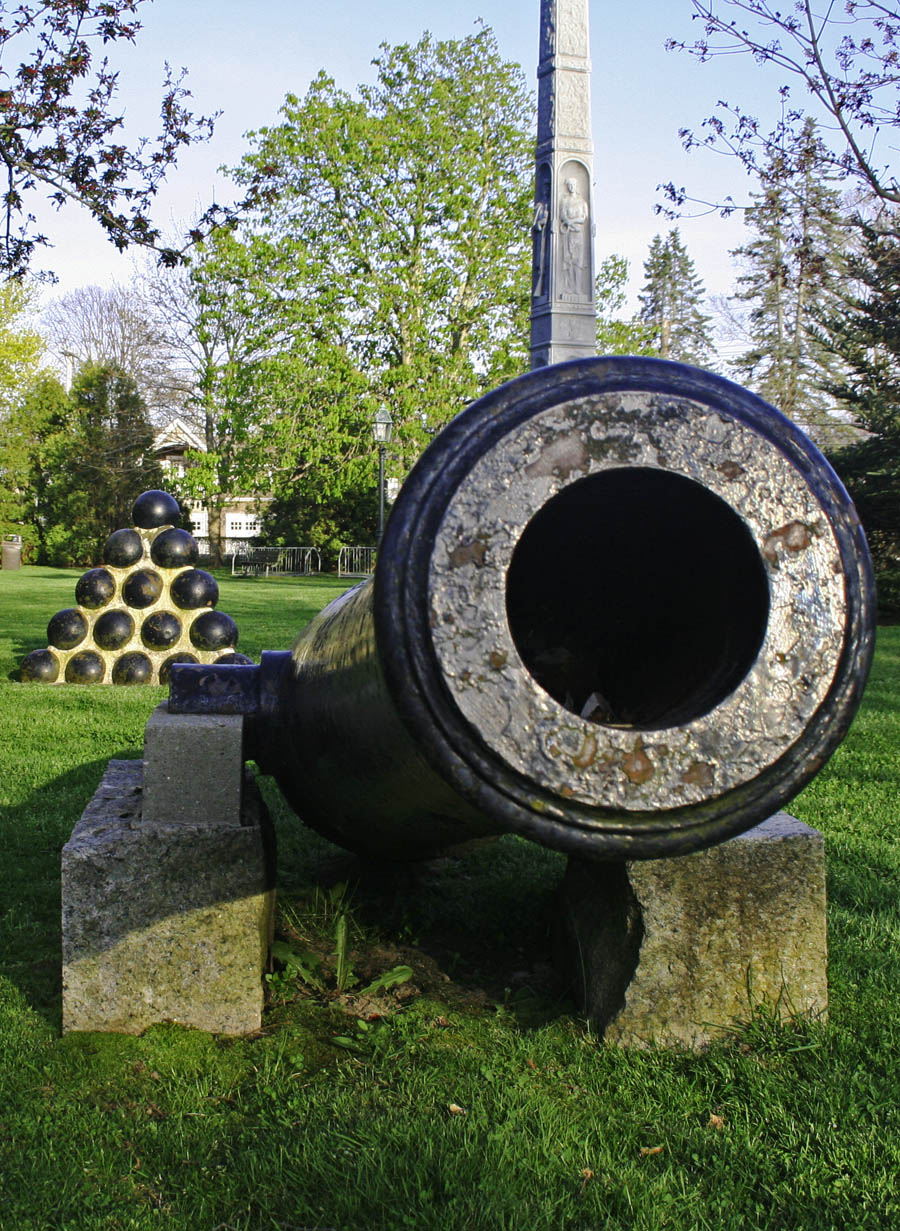 Cannonball Park in Edgartown, MA. Photo by Nicole Mercier